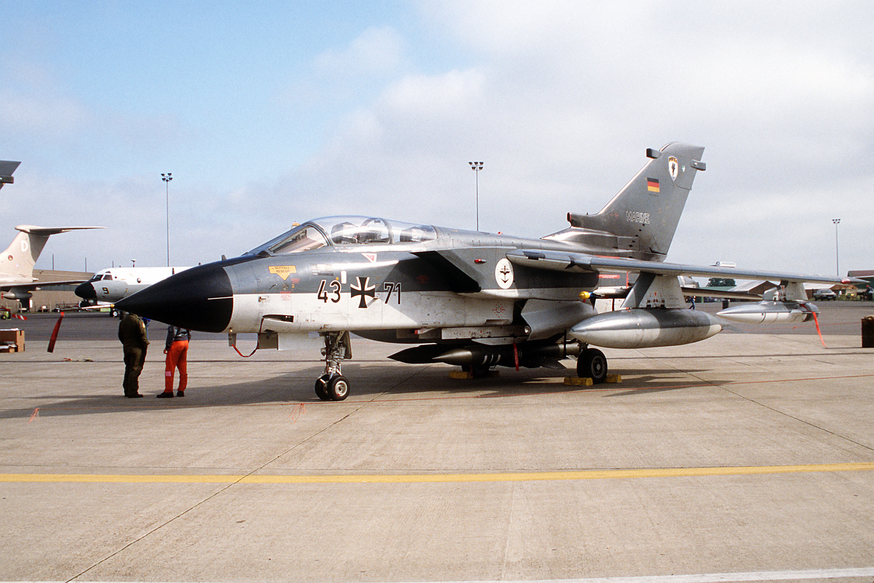 A Federal German Navy Panavia Tornado IDS aircraft (s/n 43+71) at RAF Mildenhall, Suffolk (UK), during "Air Fete '84", on 9 June 1984. The Tornado belonged to Marinefliegergeschwader 1 (MFG 1) (Naval Fighter Wing 1) at Jagel Air Base, Schleswig-Holstein (Germany). After the end of the Cold War MFG 1 was disbanded in 1993. The aircraft carries two AS.34 Kormoran air-to-surface missiles.